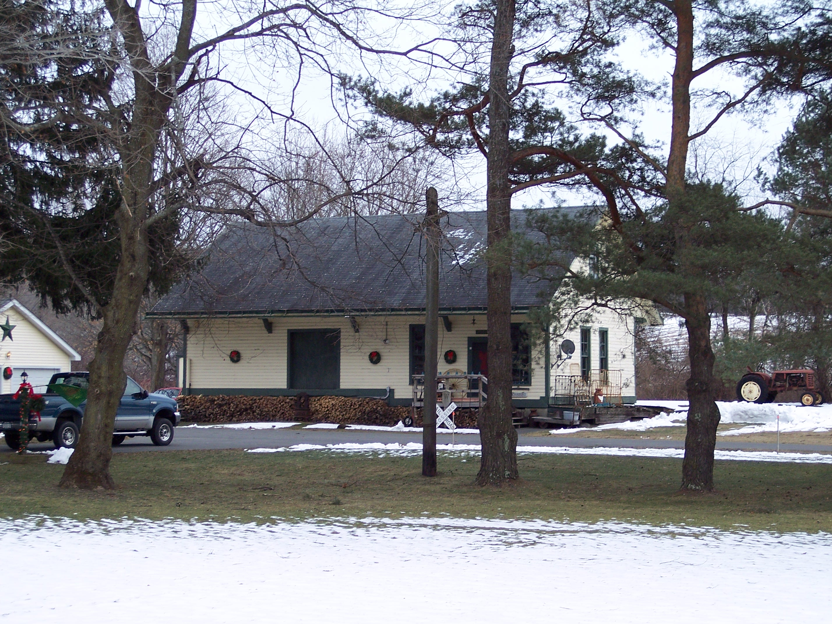 Former Craryville train station.